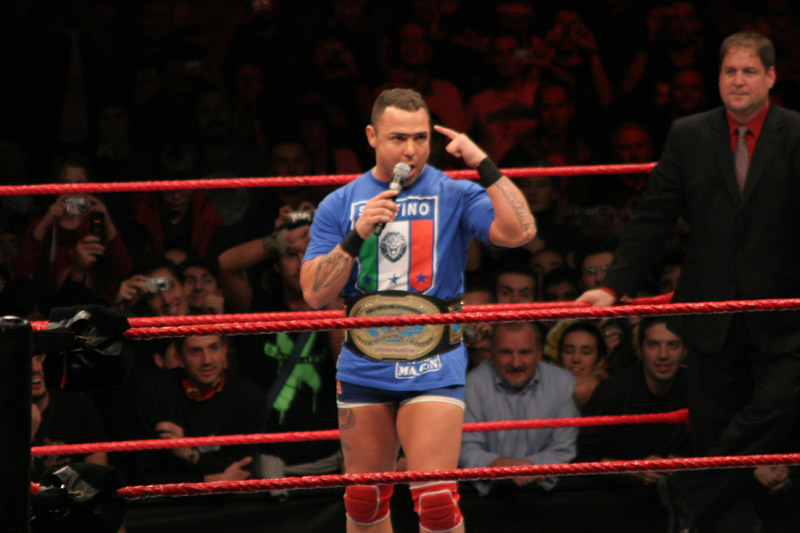 intercontinental champion santino marella in milan,italy